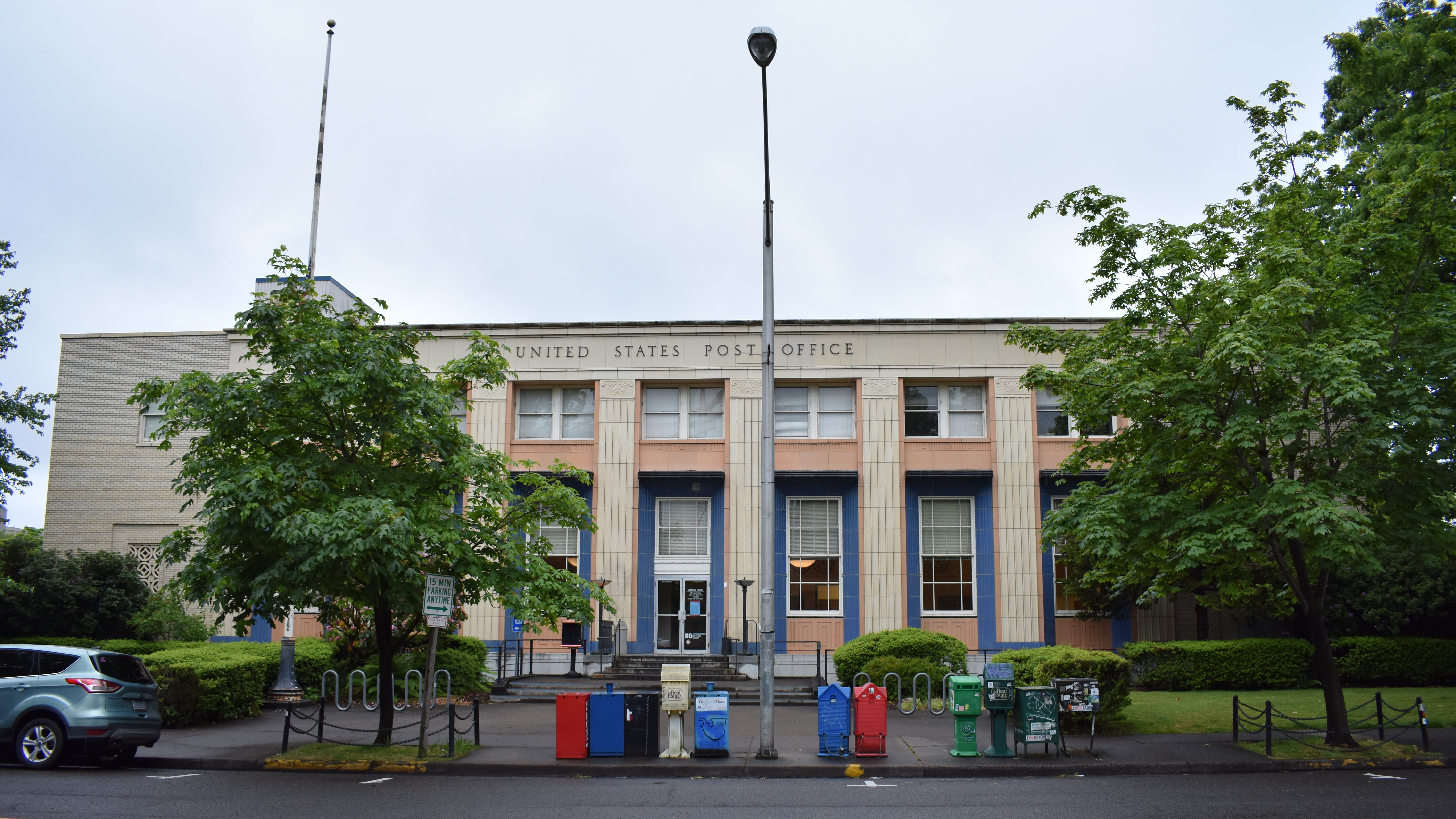 The main U.S. Post Office in Eugene, Oregon, was designed by Gilbert Stanley Underwood and completed in 1939, and the building is listed on the National Register of Historic Places. The lobby features two 1942-43 murals by Portland artist Carl Morris.